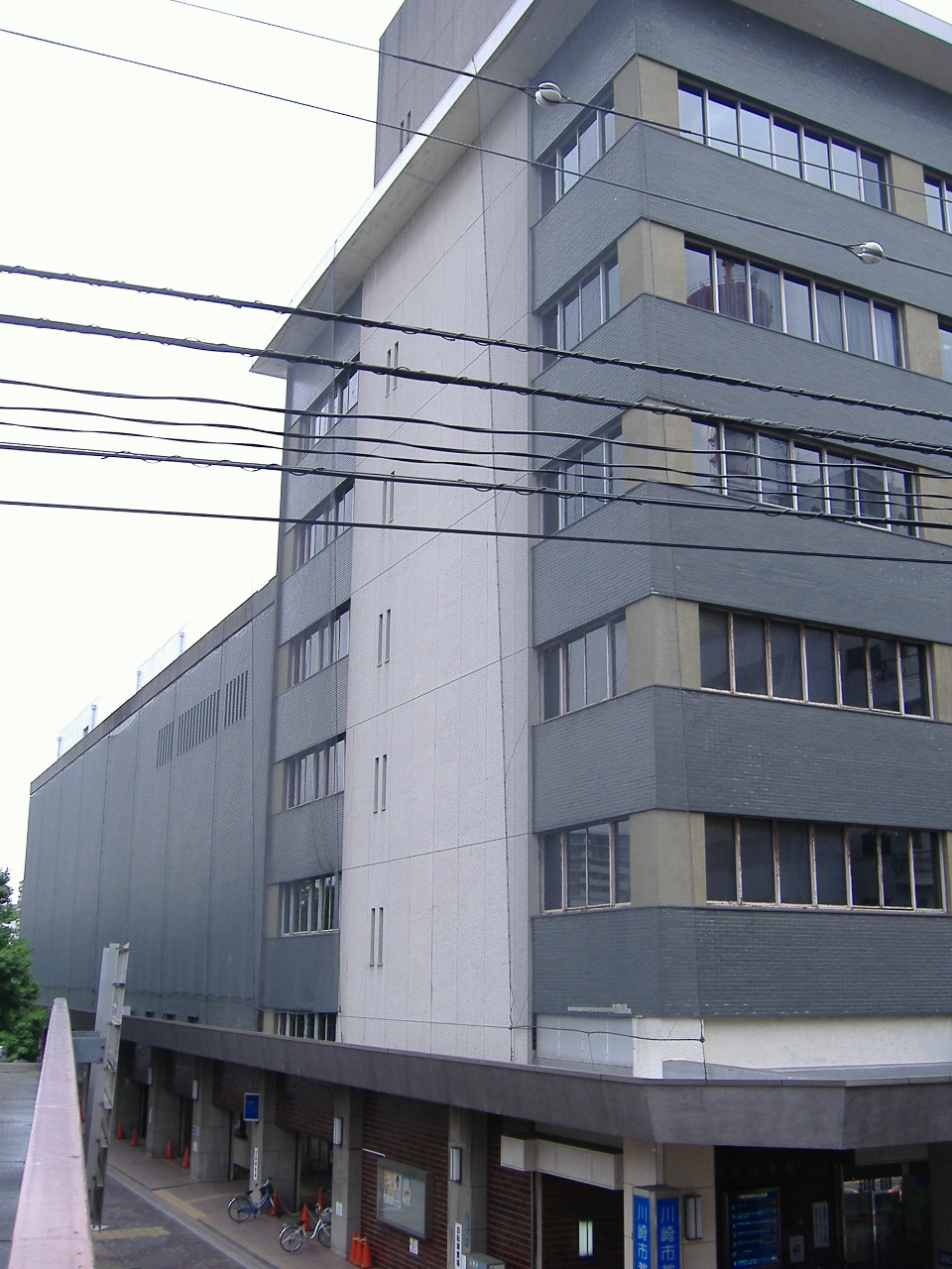 Kawasaki-city Kyouiku Bunka Kaikan(Kawasaki-city Education and Culture Hall) Kawasaki, Japan